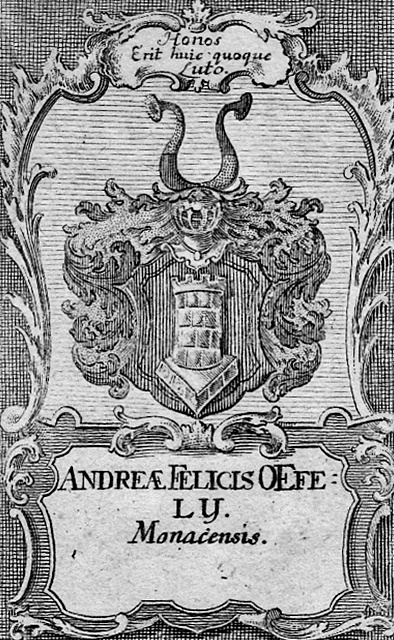 Ex Libris, Andreas Felix von Oefele (1706-1780) bayerischer Historiker und Bibliothekar